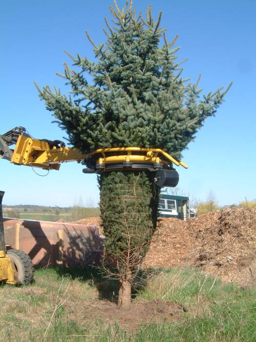 A "Tree Tyer" manufactured by the Canadian company Dutchman Industries in action